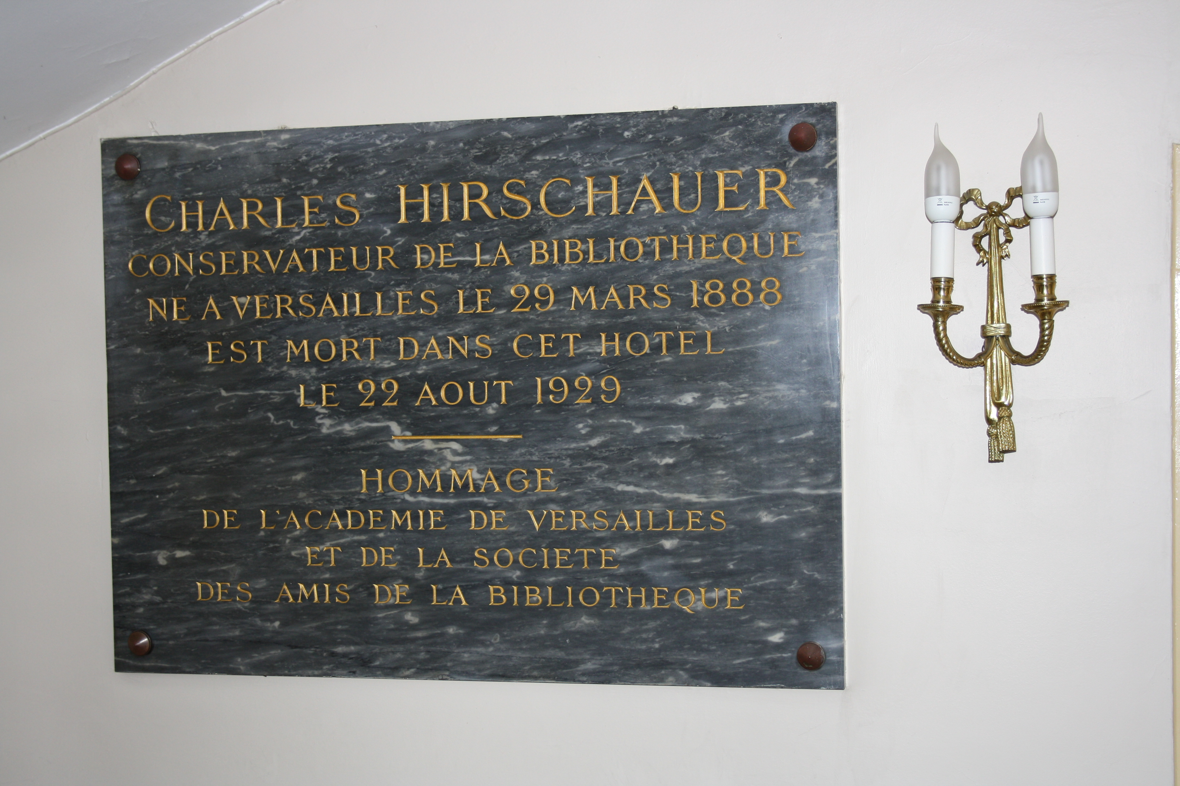 Sign in Hôtel des Affaires étrangères et de la Marine located 5 rue de l'Indépendance-Américaine in Versailles, France. This place is a National Heritage Site of France.